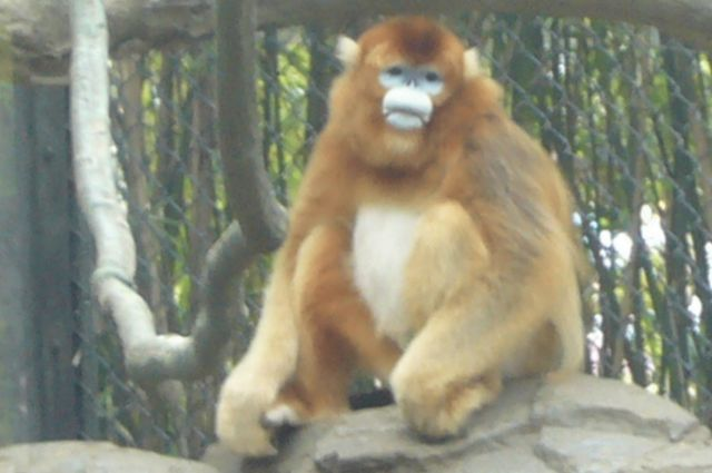 Rhinopithecus roxellana, a monkey species